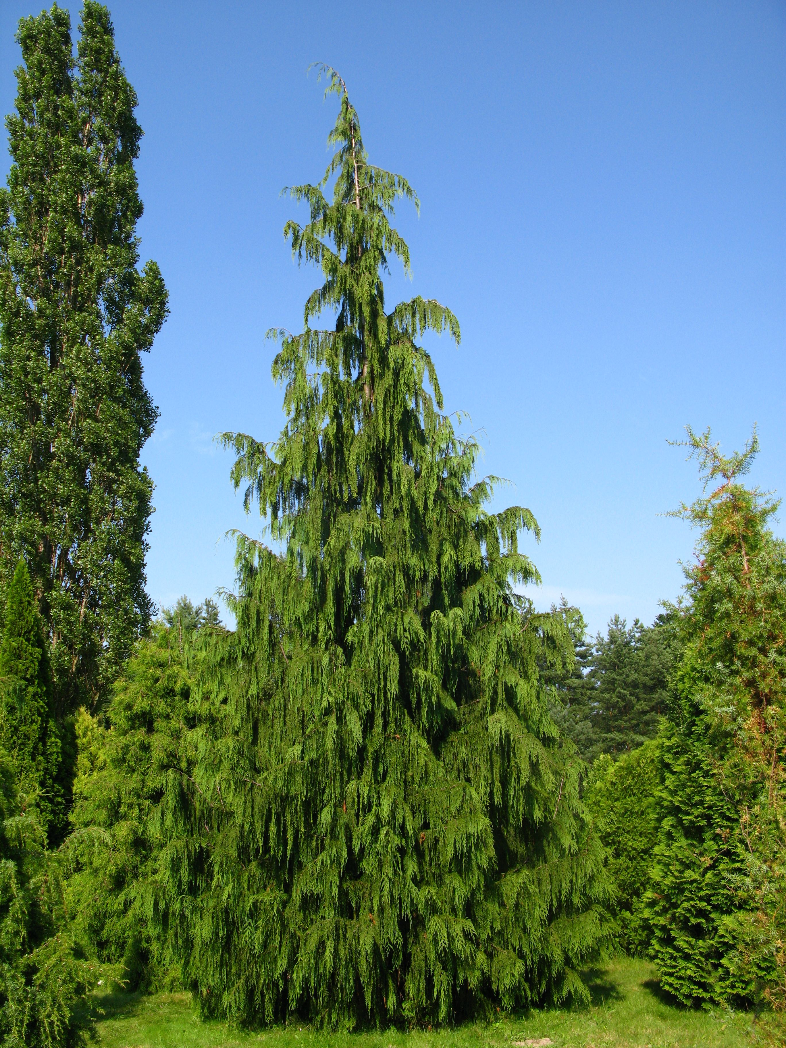 Callitropsis nootkatensis 'Pendula' in Arboretum in PAN Botanical Garden in Warsaw